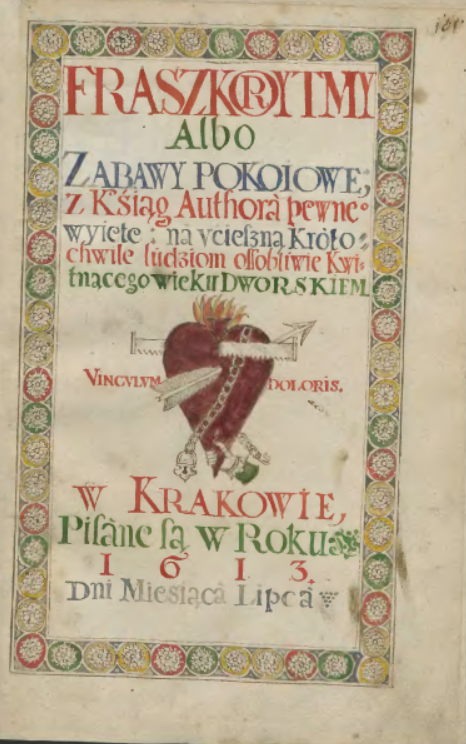 Fraszkorytmy albo zabawy pokoiowe, z Ksiąg Authora pewne wyięte: na vcieszną Kroto chwile ludziom osobliwie kwitnącego wieku dworskiem. W Krakowie. Pisane są w Roku 1613. Dni Miesiąca Lipca